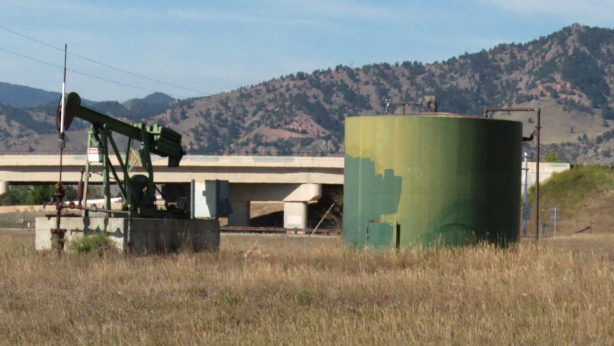 The McKenzie Well, cropped from a Wikimedia original.